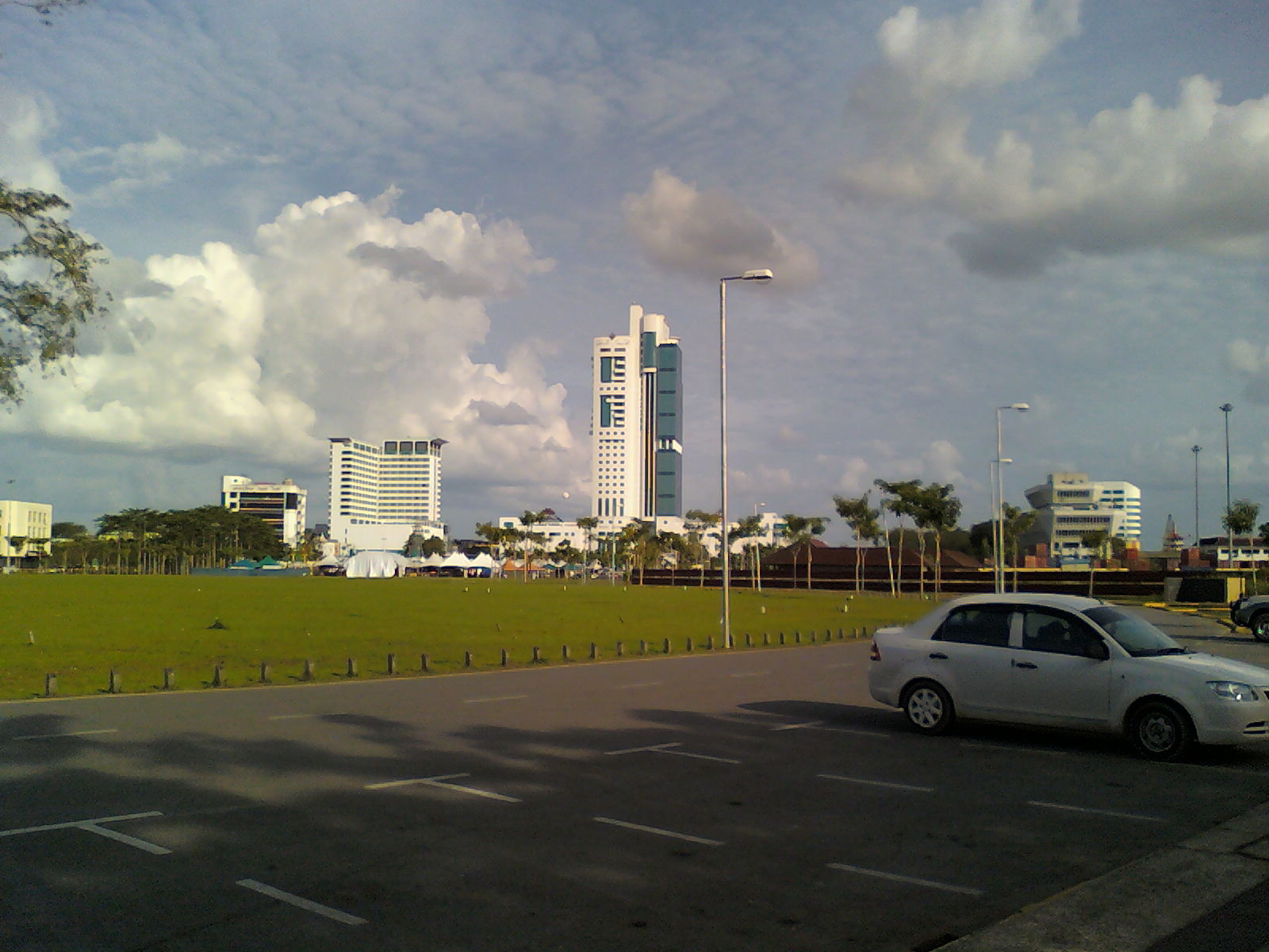 Wisma Sanyan, as seen from the waterfront by the Rajang River. Left to right: RH hotel, Wisma Sanyan, and Rajang Port Authority